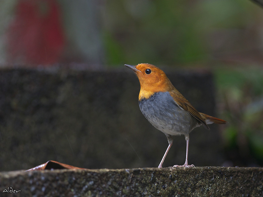 Taken at Yehliu, Taipei County, Taiwan.